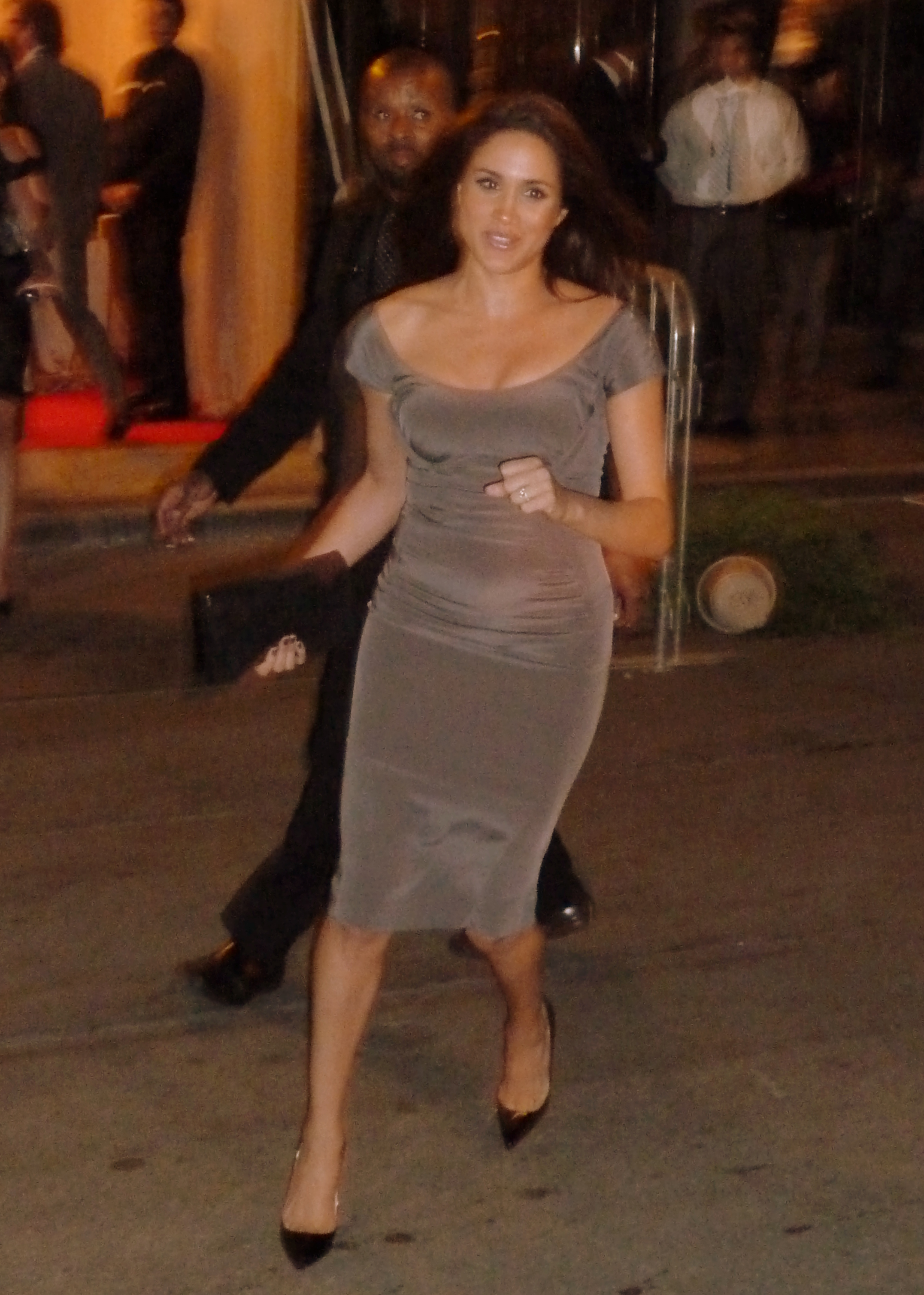 Meghan Markle at the InStyle Party, Toronto Film Festival 2012